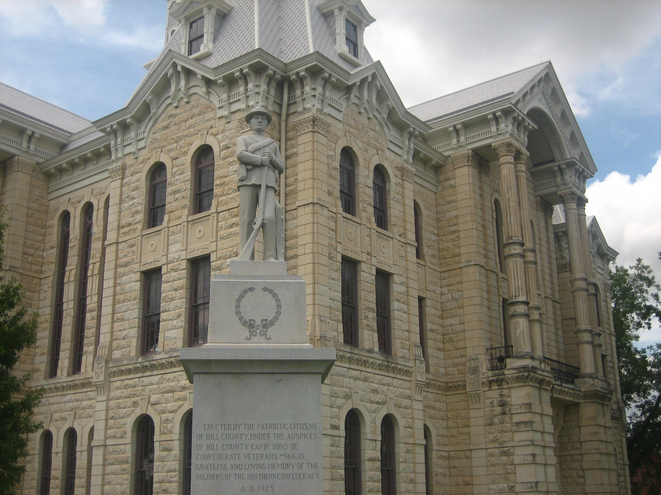 Confederate memorial at Hill County Courthouse, Hillsboro, Texas. Source I took photo on Aug. 12, 2008.Billy Hathorn (talk) 14:37, 17 August 2008 (UTC)